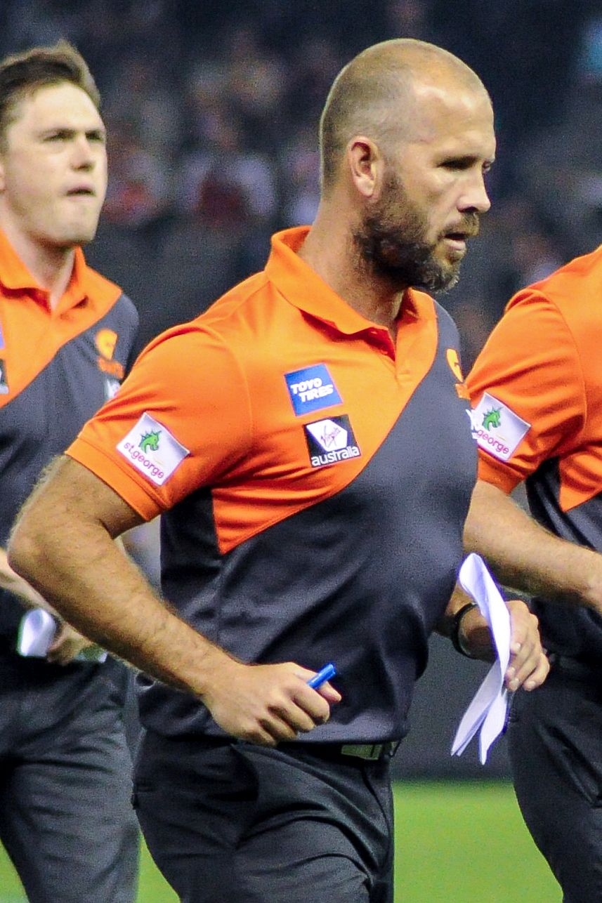 Mark McVeigh during the AFL round five match between St Kilda and Greater Western Sydney on 21 April 2018 at Etihad Stadium in Melbourne, Victoria.